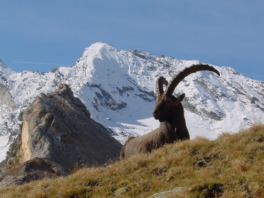 Capra ibex in Gran Paradiso NP, Italy (near rifugio V. Sella).